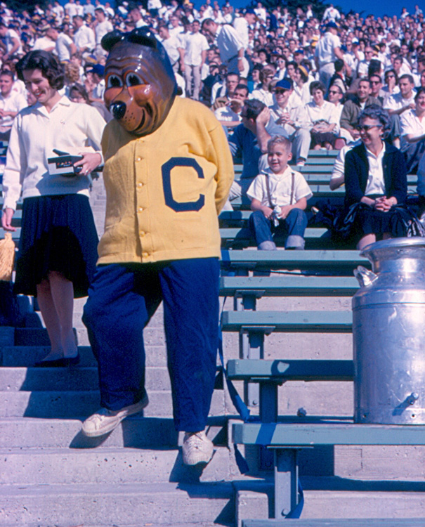 Oski the Bear at a 1961 home game. Cal lost to the University of Kansas, 53-7.